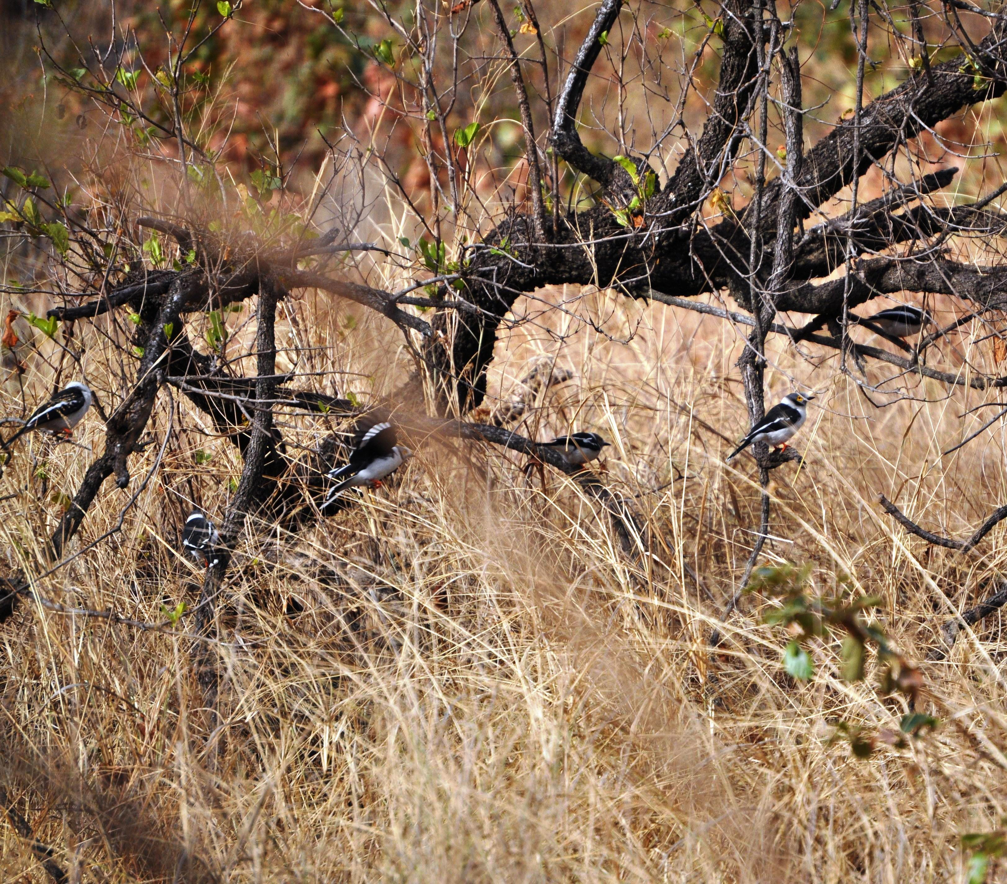 Family party of White helmet-shrikes moving through woodland in the southern Kruger Park, South Africa